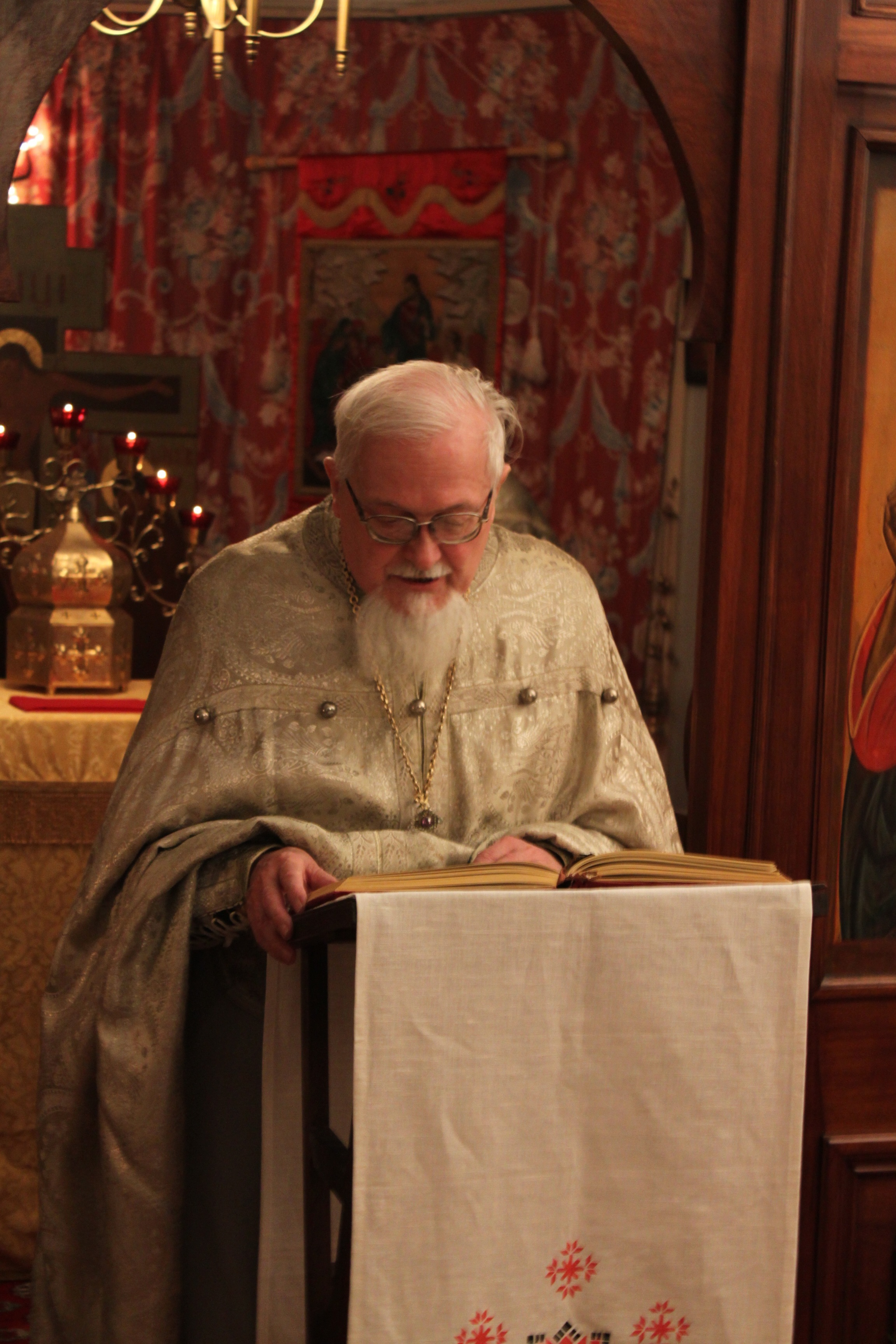 Fr. Alexander NadsonБеларуская (тарашкевіца): а. Аляксандар Надсан